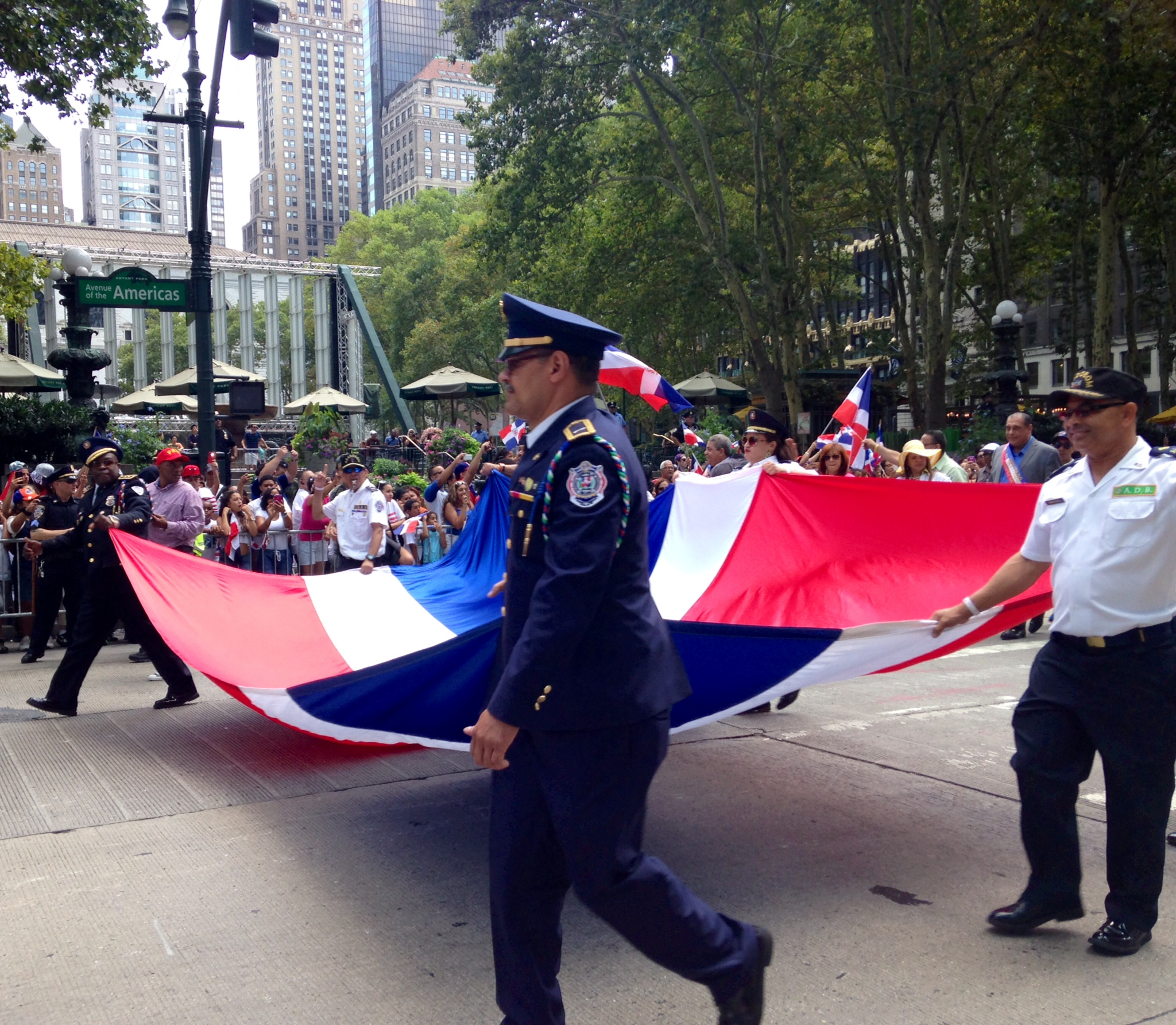 Dominican people at Dominican parade, New York City